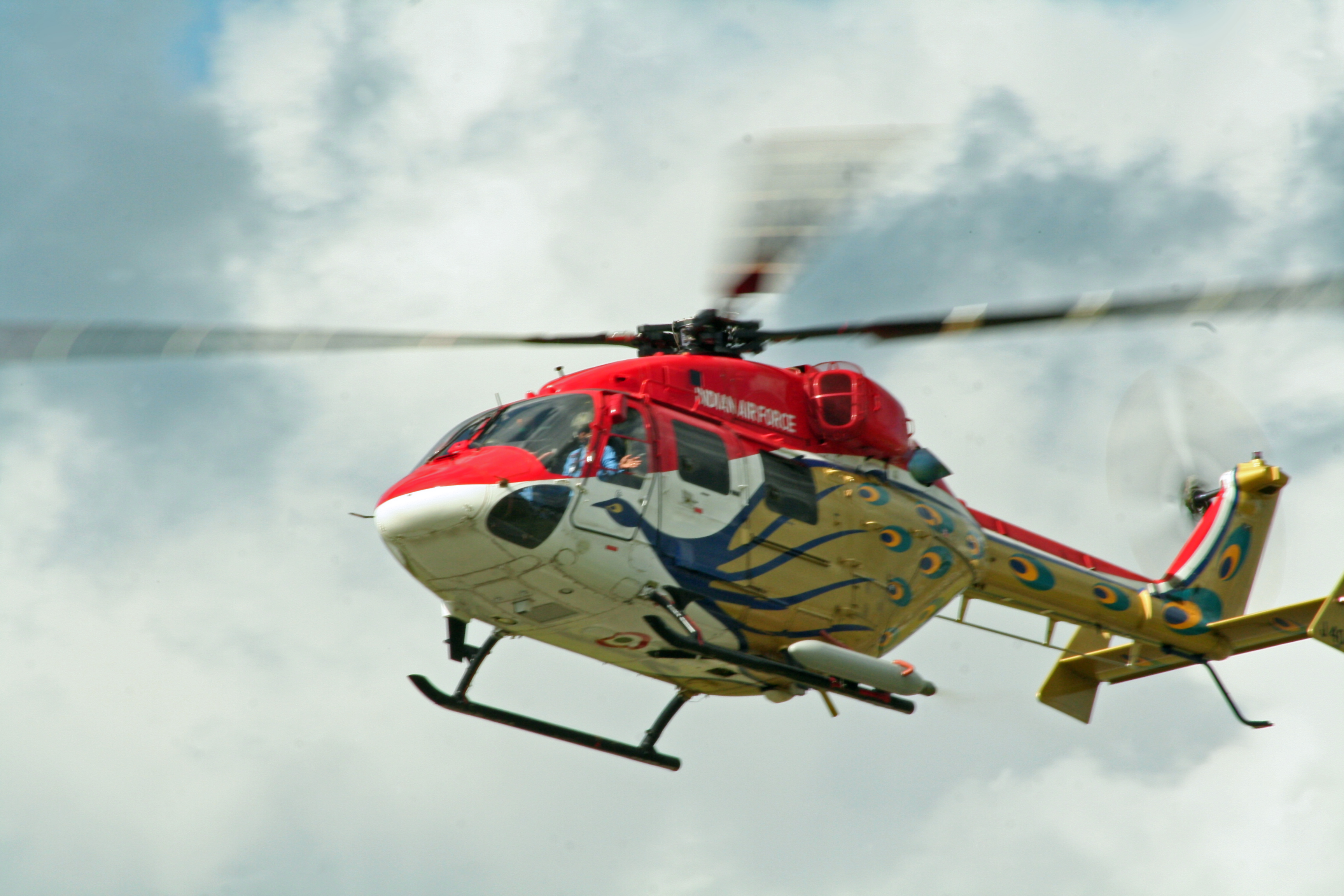 HAL Dhruv of IAF